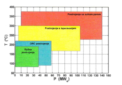 Područja primjene osnovnih tipova geotermalnih elektrana